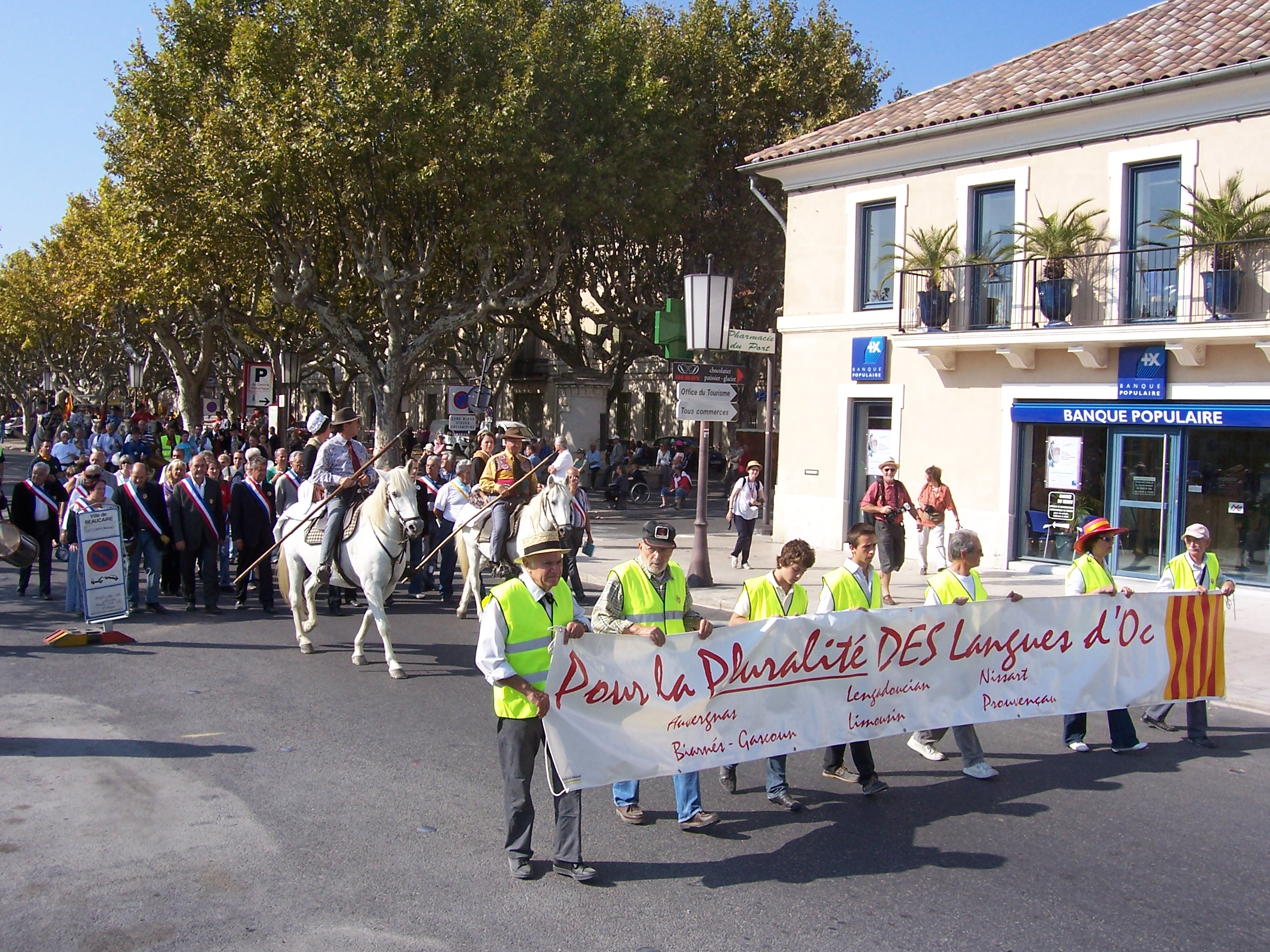 Demonstration for "the langues d'oc / plurality of oc languages" and against "occitan unique".